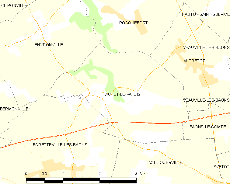 Map of French municipality Hautot-le-Vatois